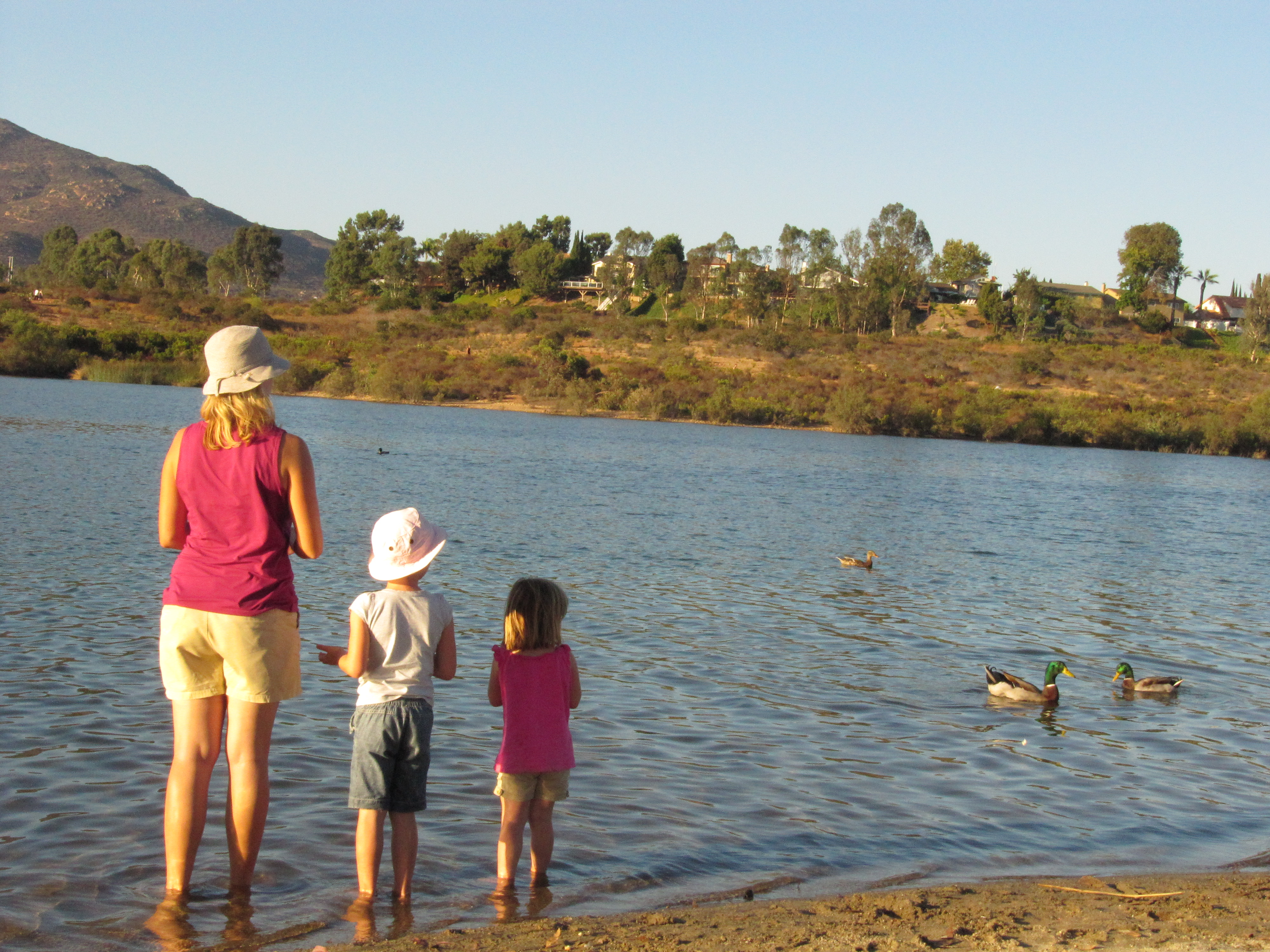 A family feed the ducks at Lake Murray, in San Diego, California. Photograph by Patty Mooney, Crystal Pyramid Productions, San Diego, California.